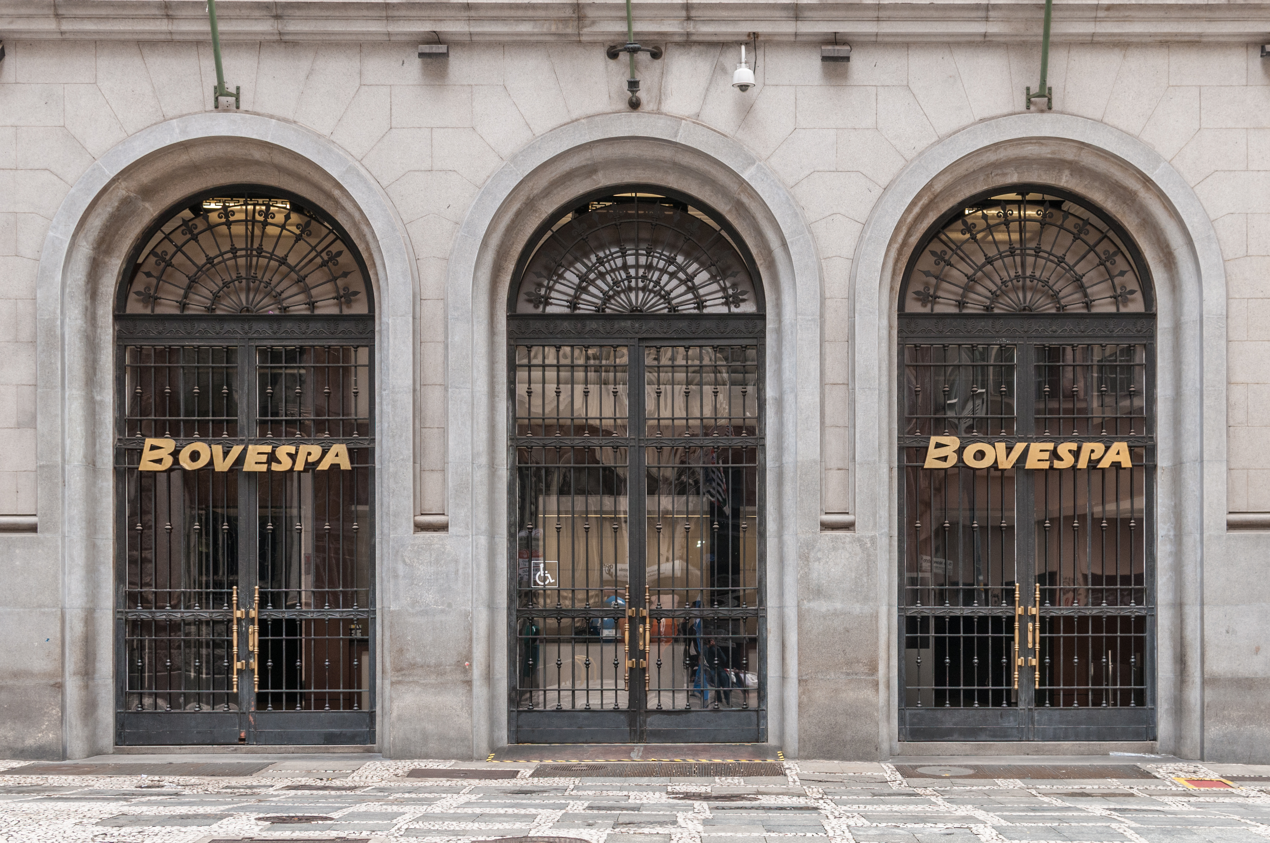 Bovespa, São Paulo city downtown